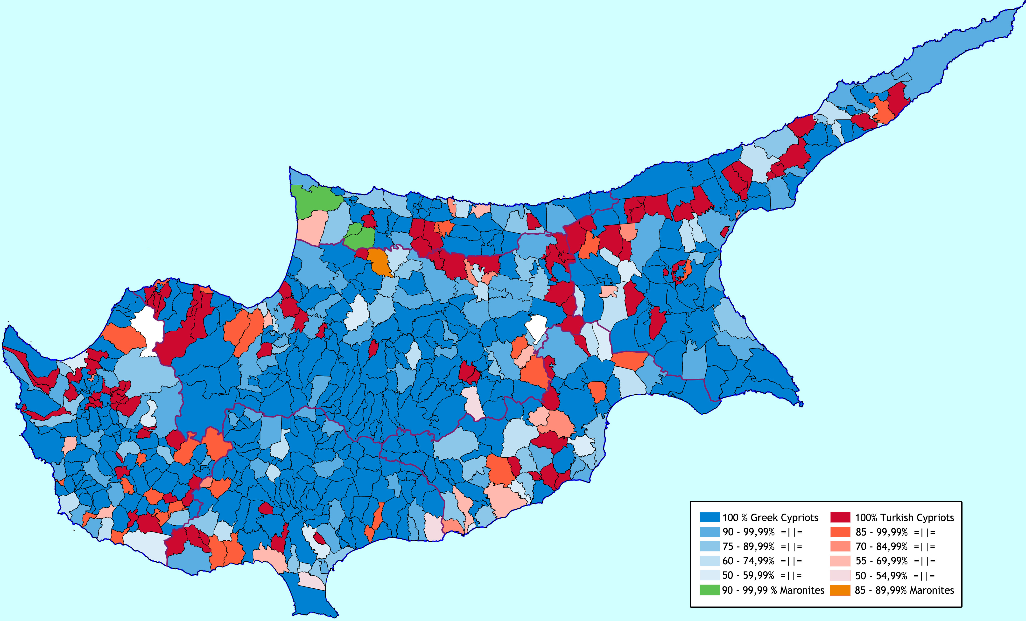 Map showing the distribution of population in Cyprus during the 1960 census.